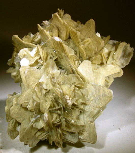 Muscovite Locality: Minas Gerais, Southeast Region, Brazil (Locality at ) The "books" of crystals on these strange and beautiful muscovites are shaped like flat stars, intergrown and sticking out in all directions. This is a big, rich specimen of this interesting mica type. 10.8 x 9.3 x 6.4 cm